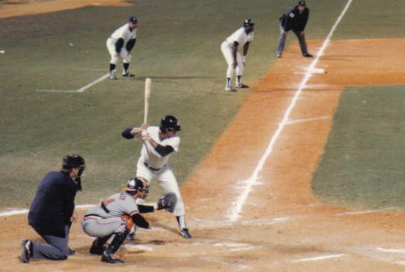 Lou Piniella hits while Rick Dempsey catches in a Spring Training game in 1983. Philatio (talk) 03:36, 5 May 2008 (UTC) 03:36, 5 May 2008 . . Phil5329 . . 569×382 (27 KB)